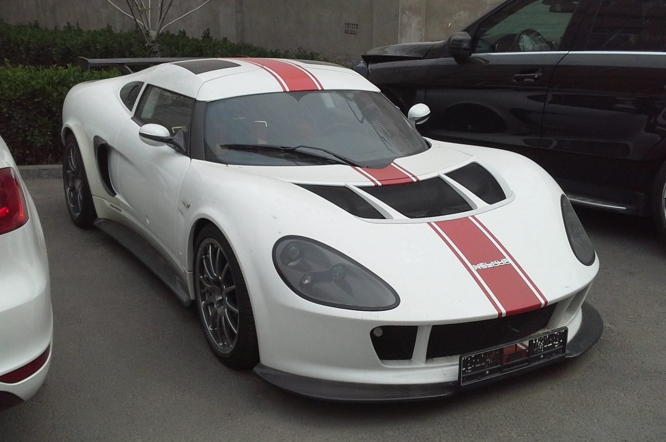 Melkus RS2000 photographed in Beijing, China.